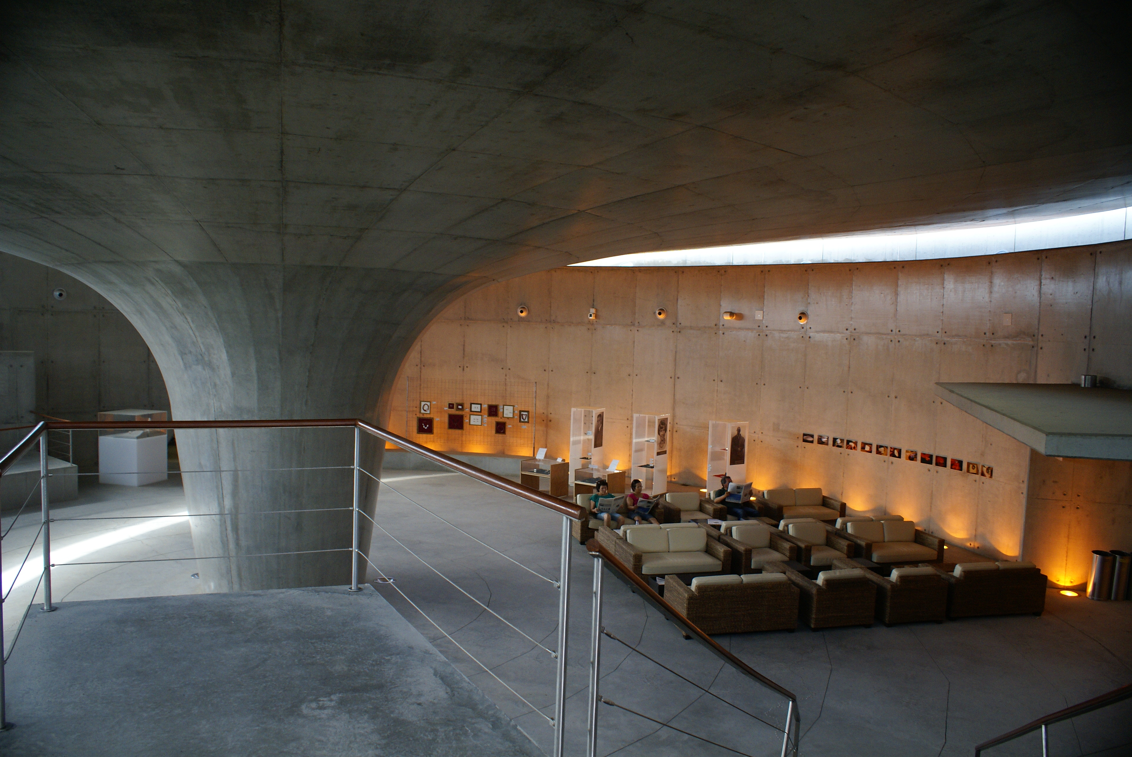 The Capelinhos Volcano Interpretive Centre foyer, Capelo, Faial (Azores), Portugal